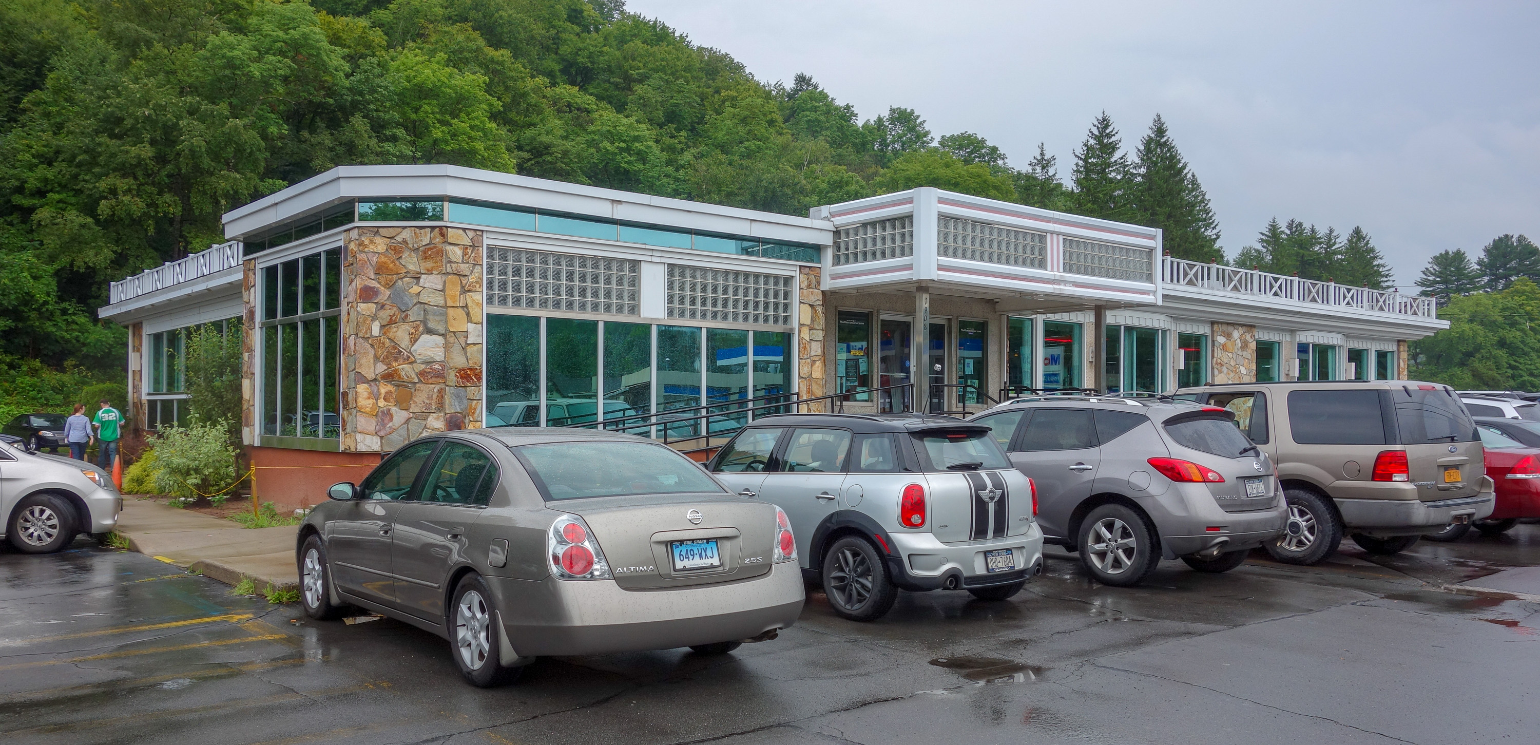 Roscoe Diner, 1908 Old Route 17, Roscoe New York.